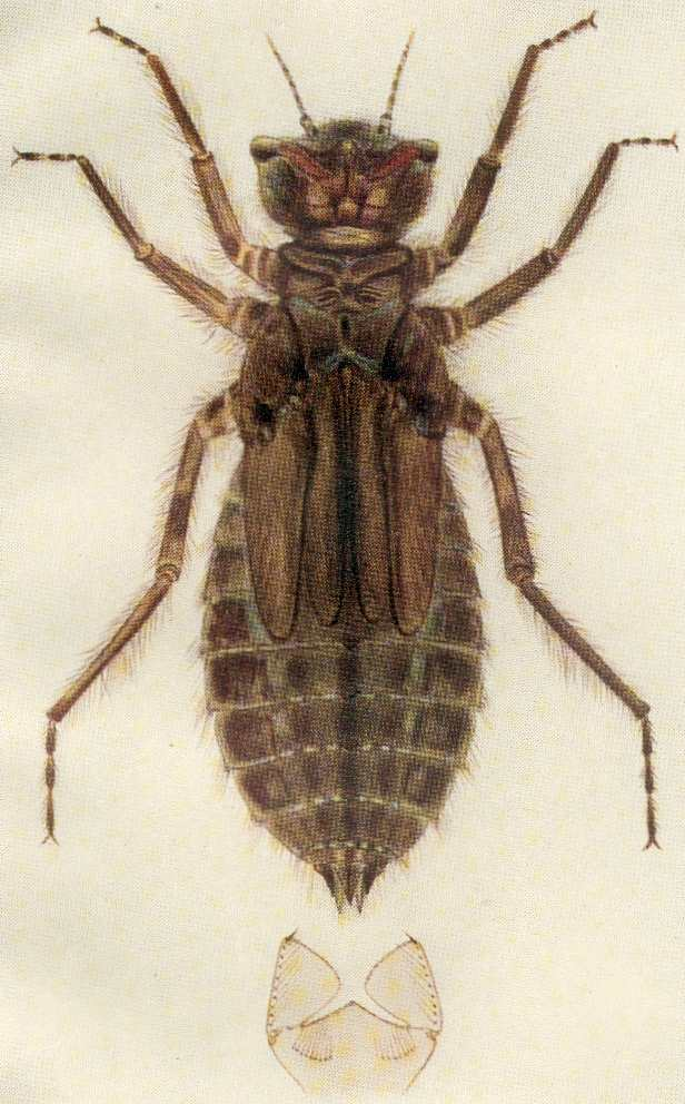 Drawing of Libellula depressa Naiad x5 Mentum and palpi x6